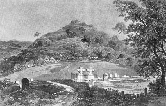 Engraving of the New Burial Ground, Freetown Sierra Leone